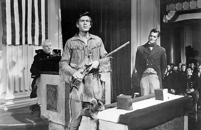 Photo of Fess Parker as Davy Crockett from the television miniseries Davy Crockett. This episode is "Davy Crockett Goes to Congress".